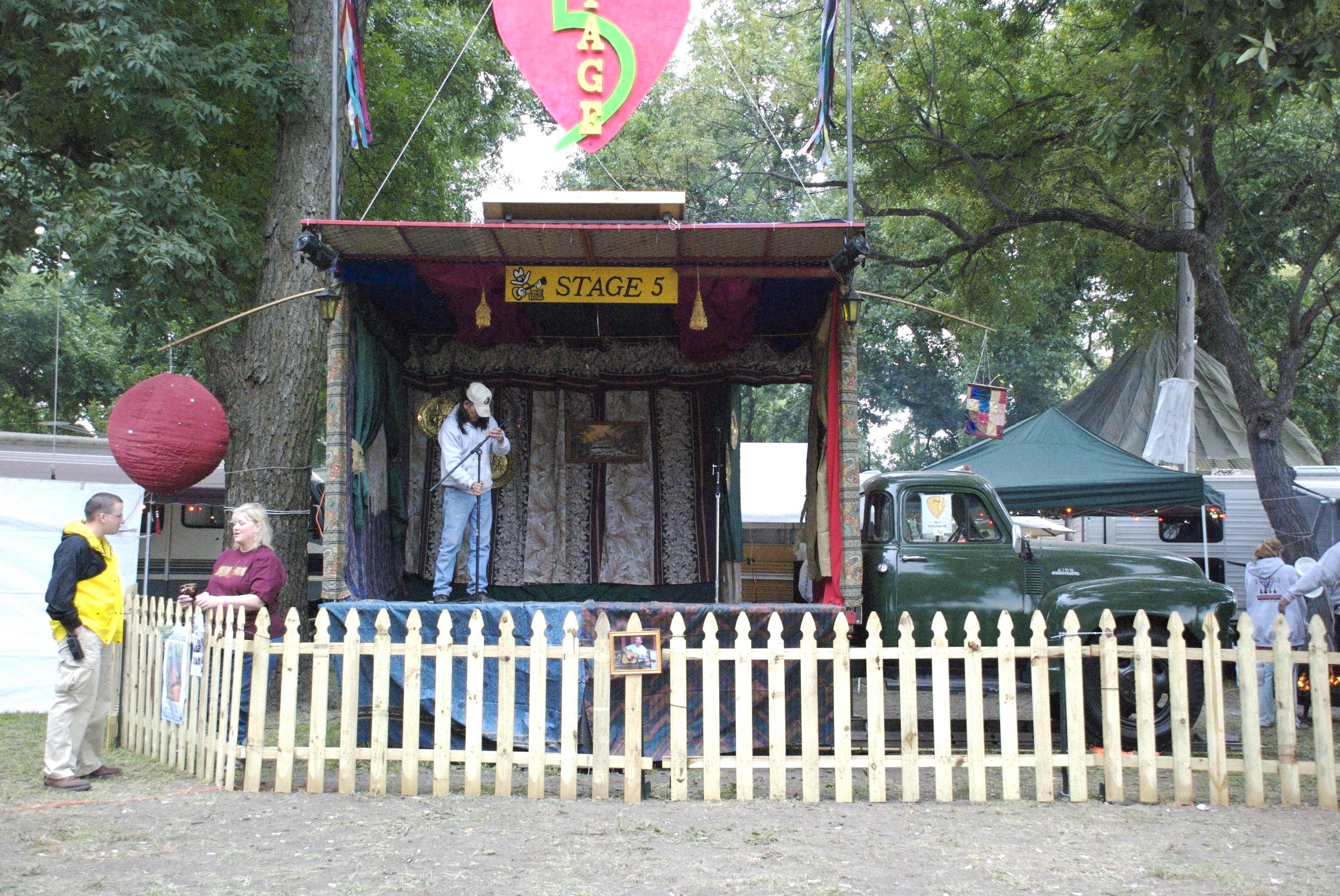 Stage 5 at the Walnut Valley Festival